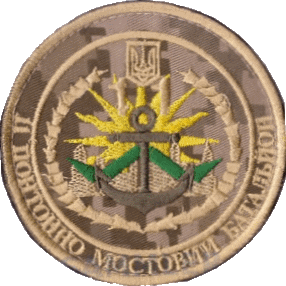 Shoulder Sleeve Insignia of 11th Pontoon Bridge Battalion, Uknaine